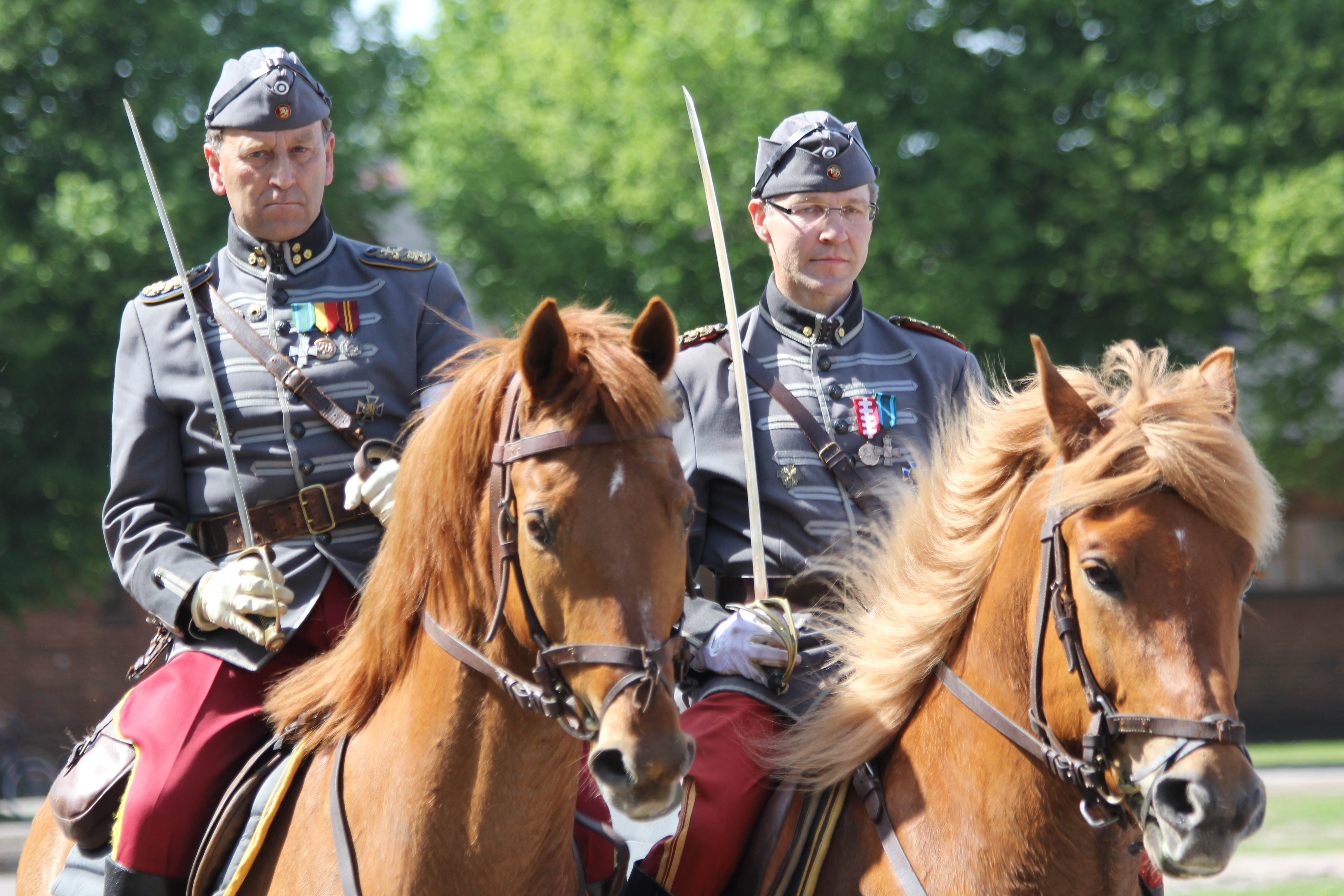 A pair of dragoon heritage guild riders on Adolf Ehrnrooth square during the Finnish military Flag Day 2014 in Lappeenranta Rakuunamäki.